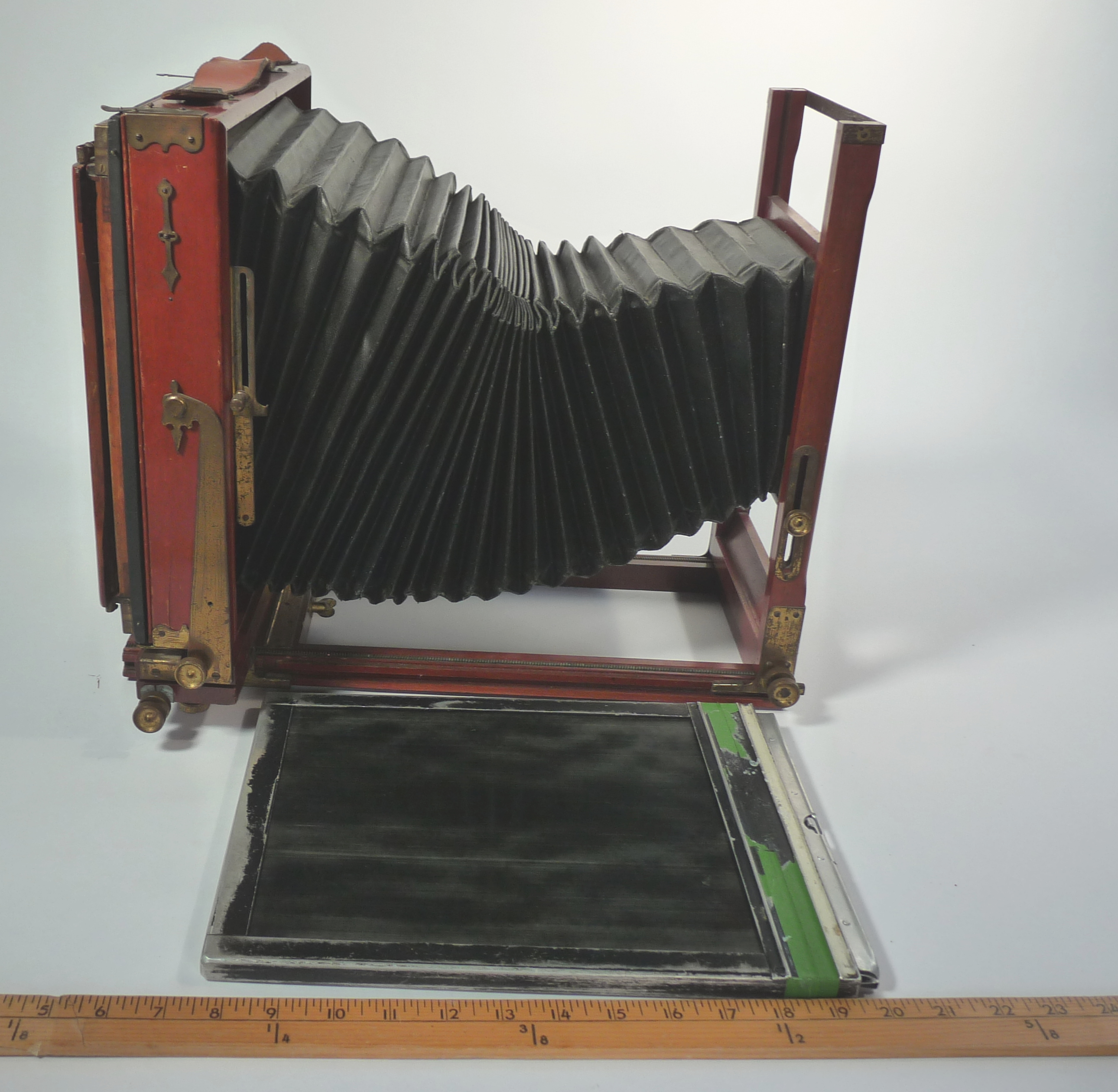 Seneca view camera type: 8x10 large format number stamped on bottom: 9 Lens: None Shuttler: None Camera owner: Charlie Graf Internet reference: Charlie Graf comments: This is not a Seneca Model 9. Nor is it a true view camera (in spite of its name). It does not have front tilt, so it is really just a field camera.